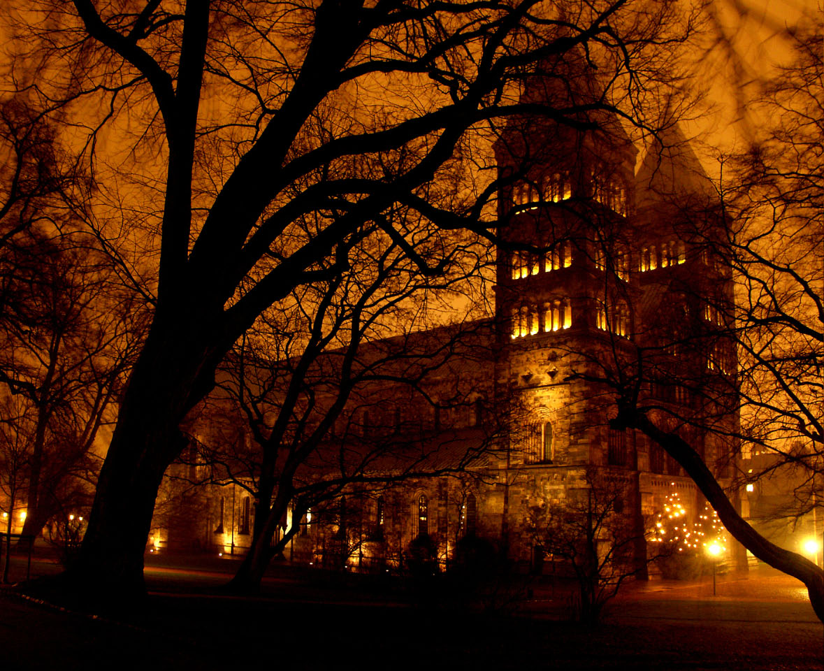 The Cathedral of Lund in Scania, Sweden.